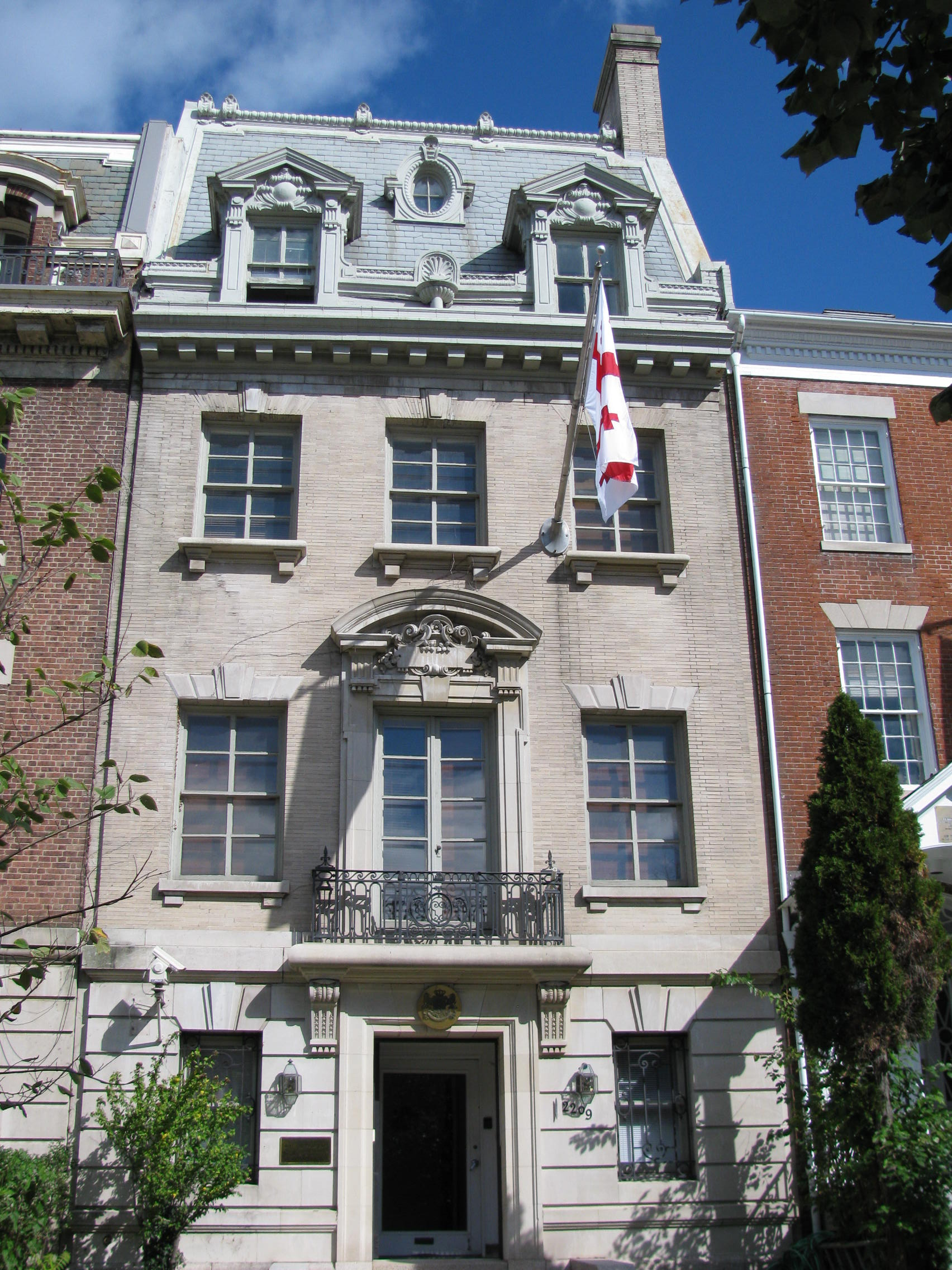 Georgian Embassy Washington, D.C.